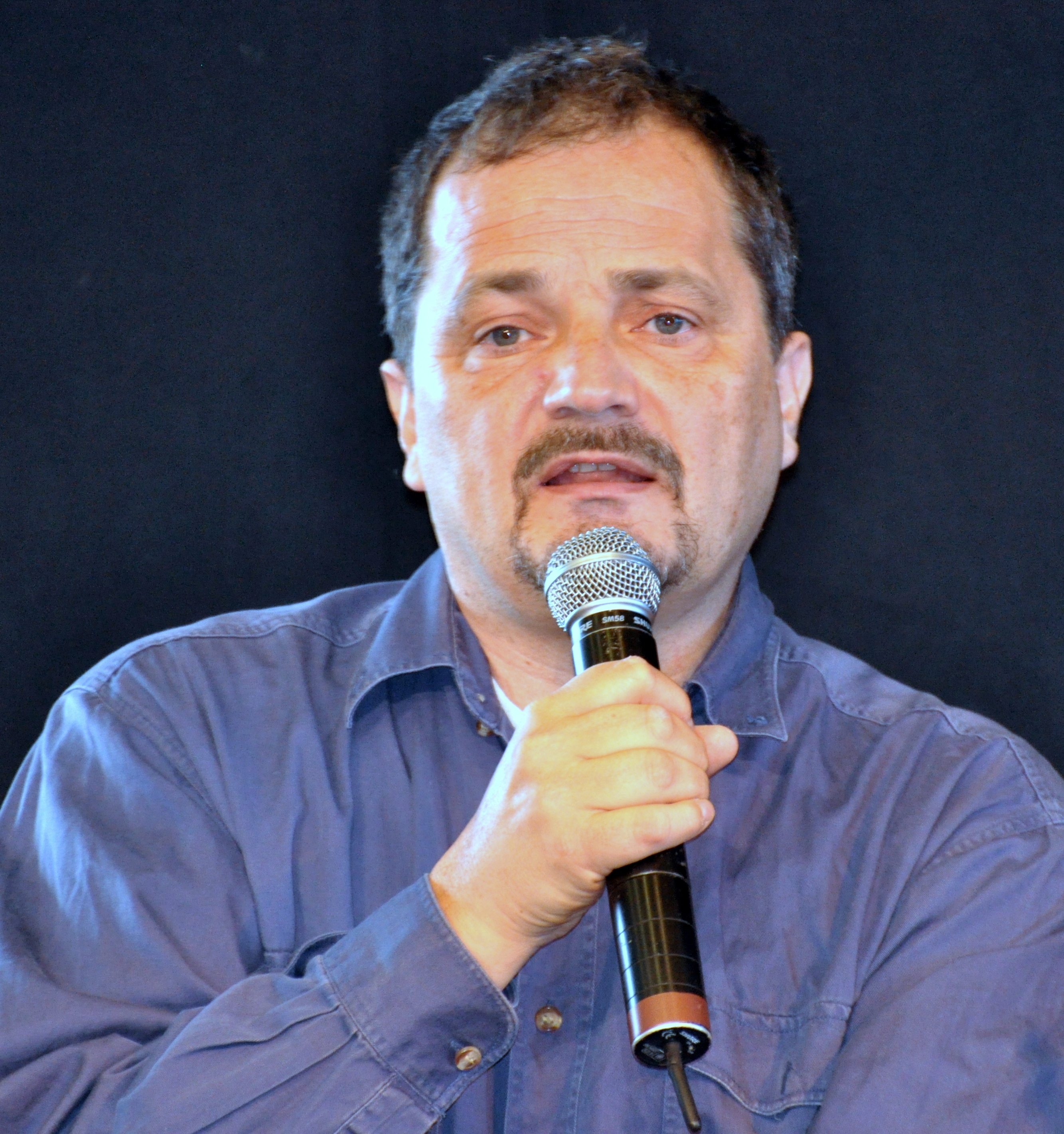 Finnish film director and writer Janne Kuusi at the Turku Book Fair 2010.